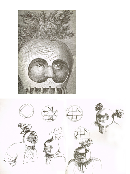 Book Nouveaux voyages du capitaine Cook p. 80. See also A Man of the Sandwich Islands in a Mask by John Webber,published by Nical and Cadell, London, England, ca 1784